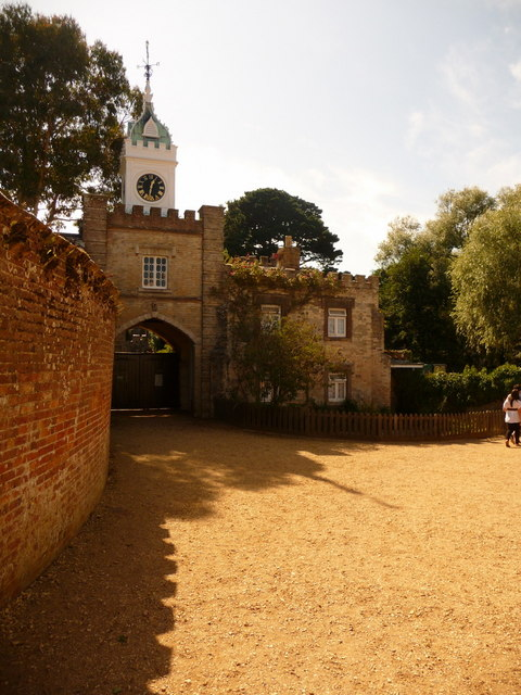 Brownsea Island: entrance to Branksea Castle A rather grand gatehouse, with clock tower.